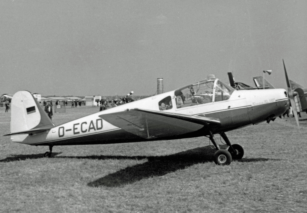 The prototype postwar-built Klemm kl 107 after conversion to kl 107B. On display at the 1957 Paris Air Show.